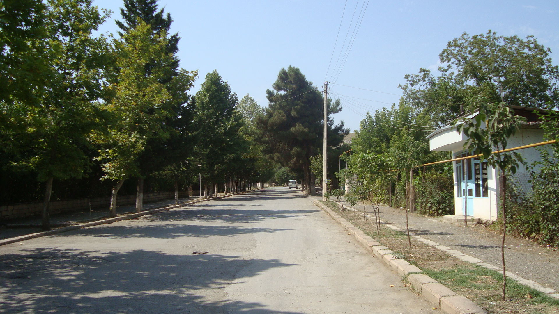 One of the central streets. Martuni, Republic of Mountainous Karabakh (Artsakh).